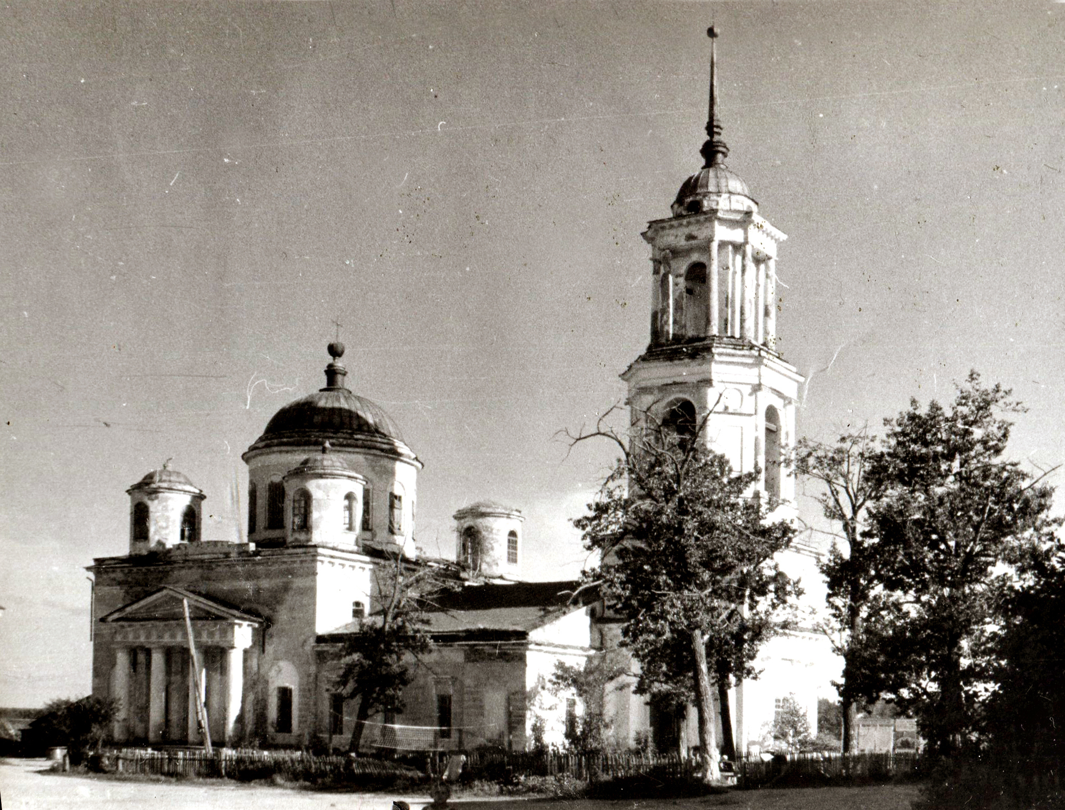 Middle course of the river Mologa.